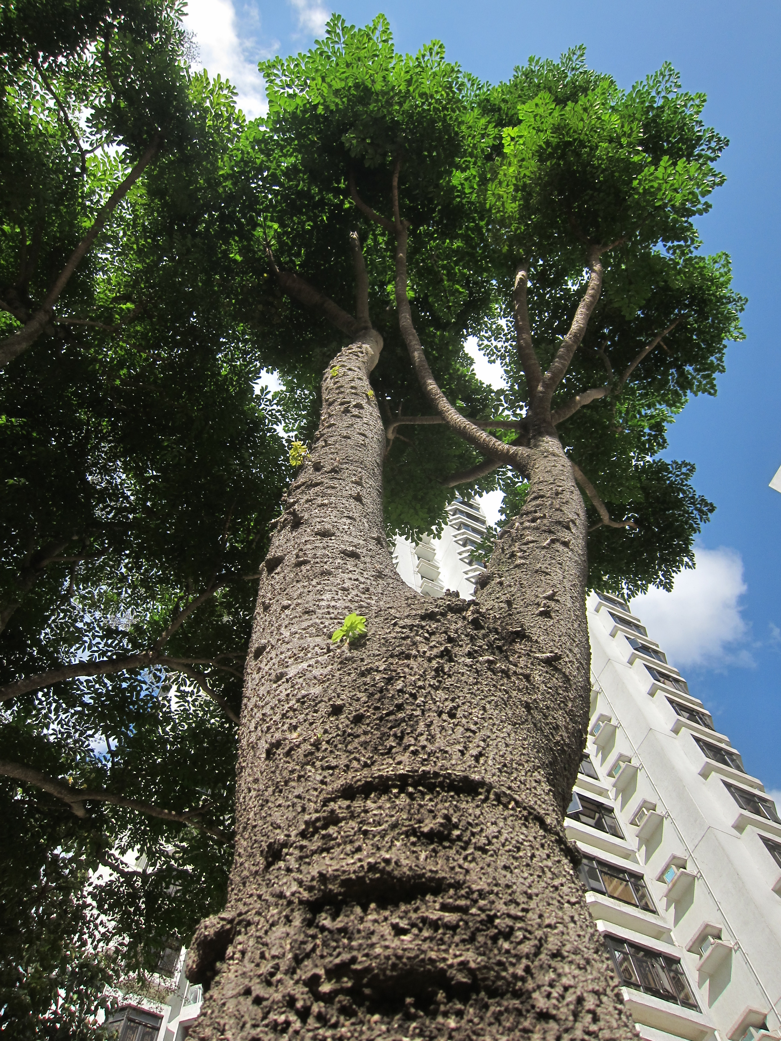 Ardisia quinquegona in Hong Kong